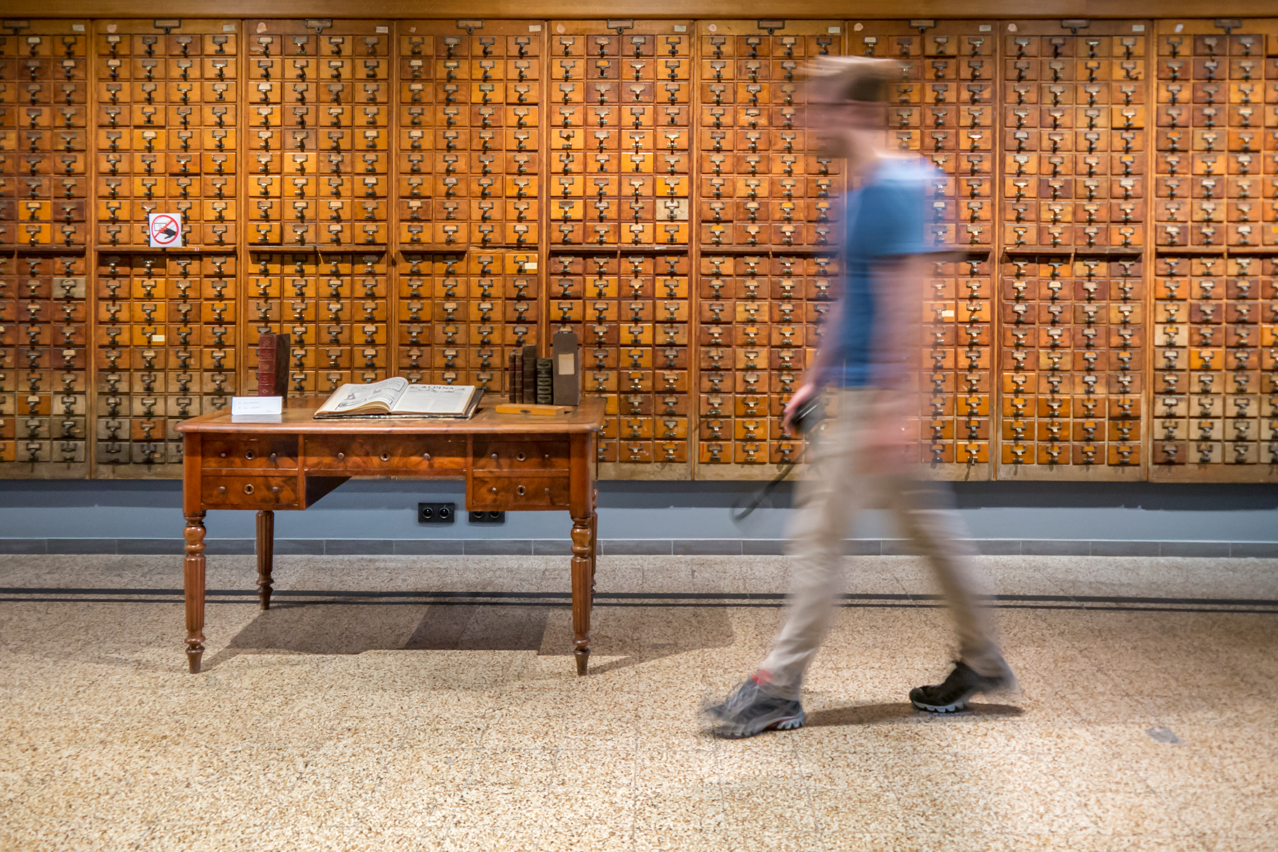 This is a file created at the museum: Mundaneum in Mons